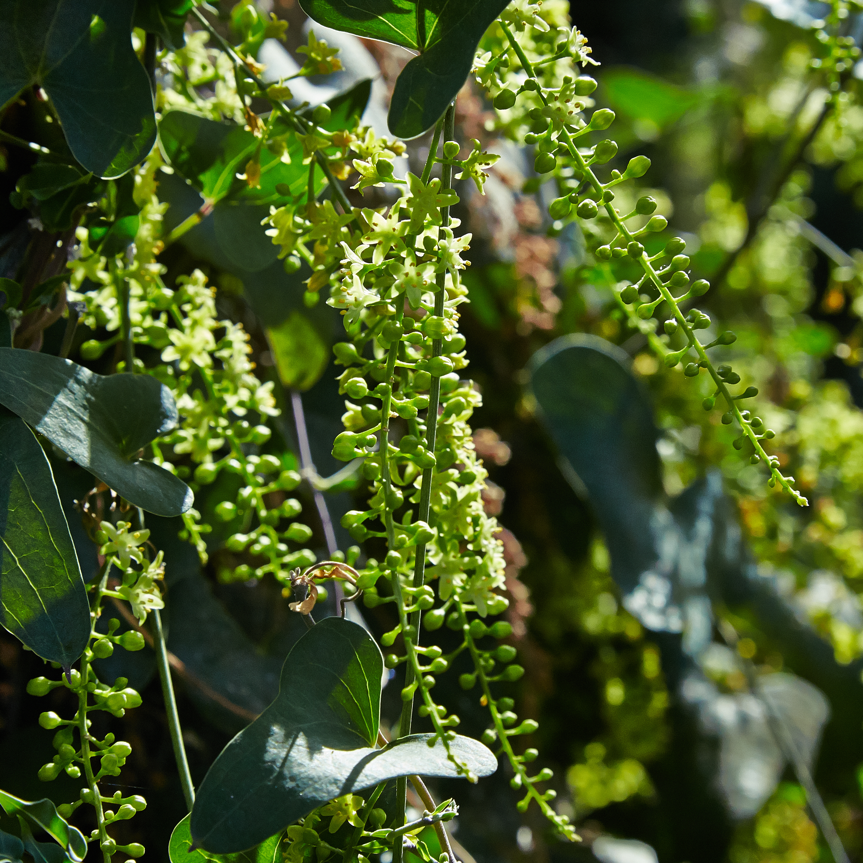 Dioscorea sylvatica identified with the help of existing labeling in Bergianska trädgården.